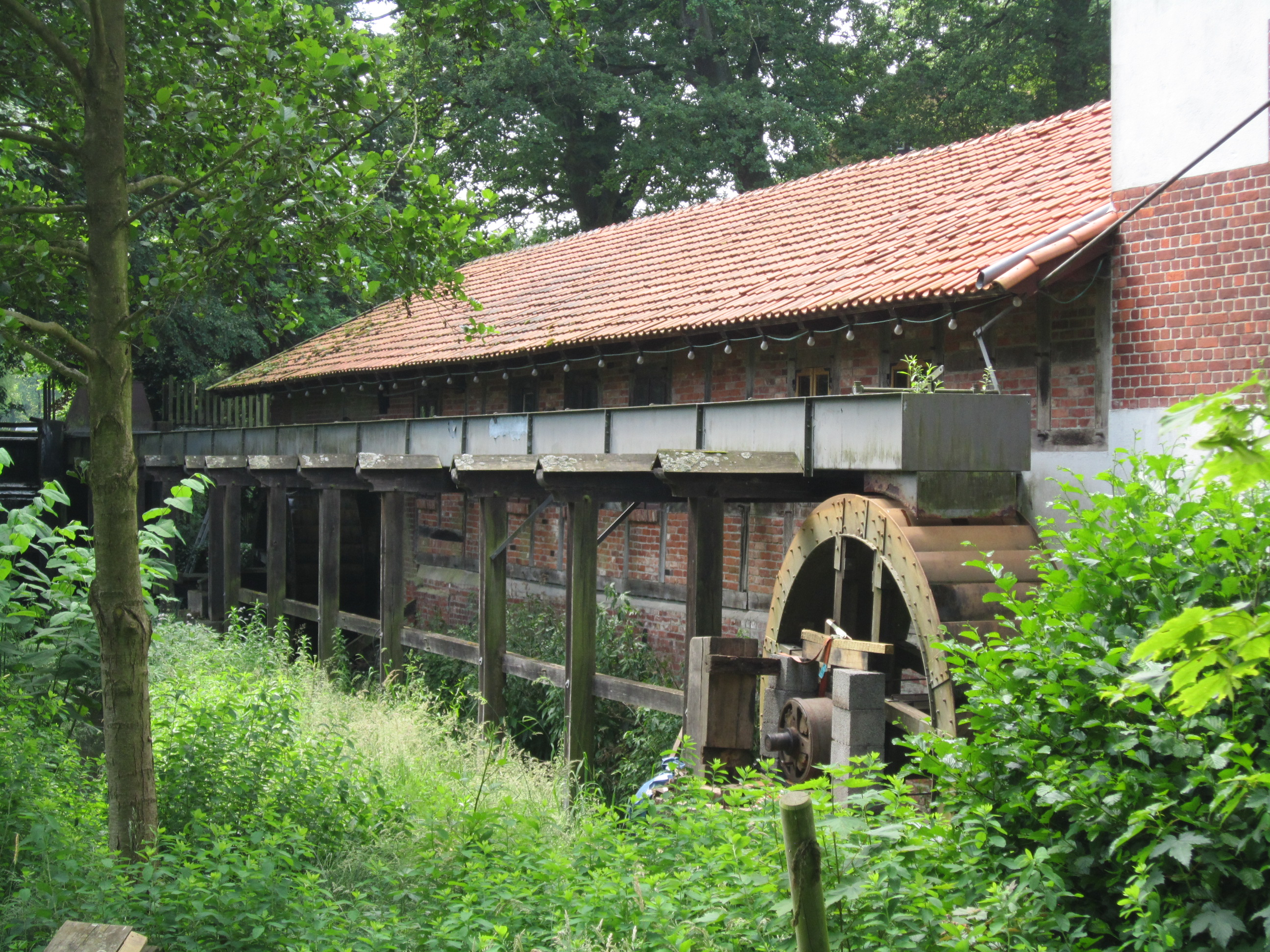 Watermill (sawing-mill) Blenhorst (Landkreis Nienburg/Weser, Lower Saxony)